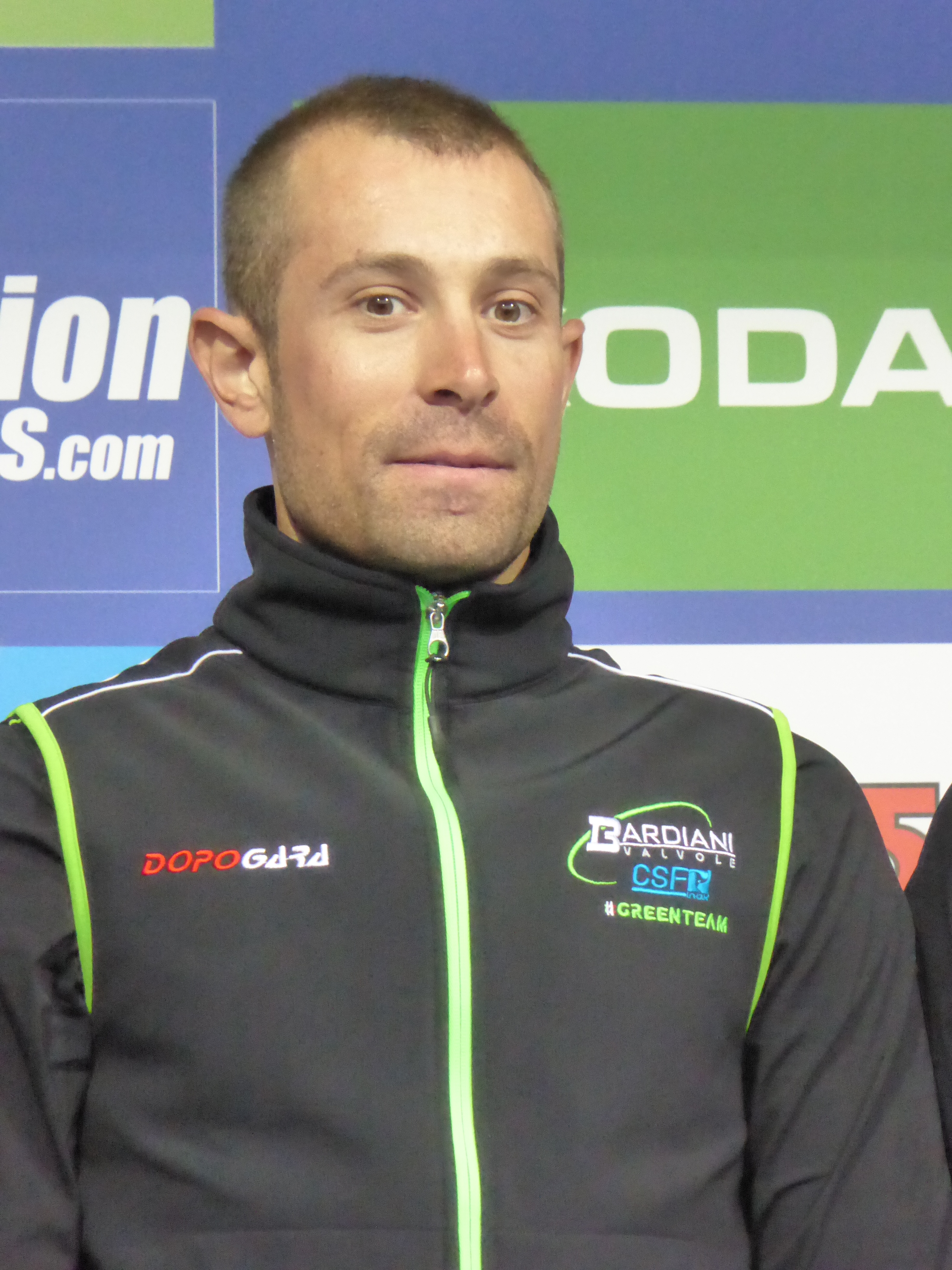 Nicola Ruffoni (Bardiani-CSF), pictured at the 2016 Tour of Britain team presentation in Glasgow on 3 September 2016.